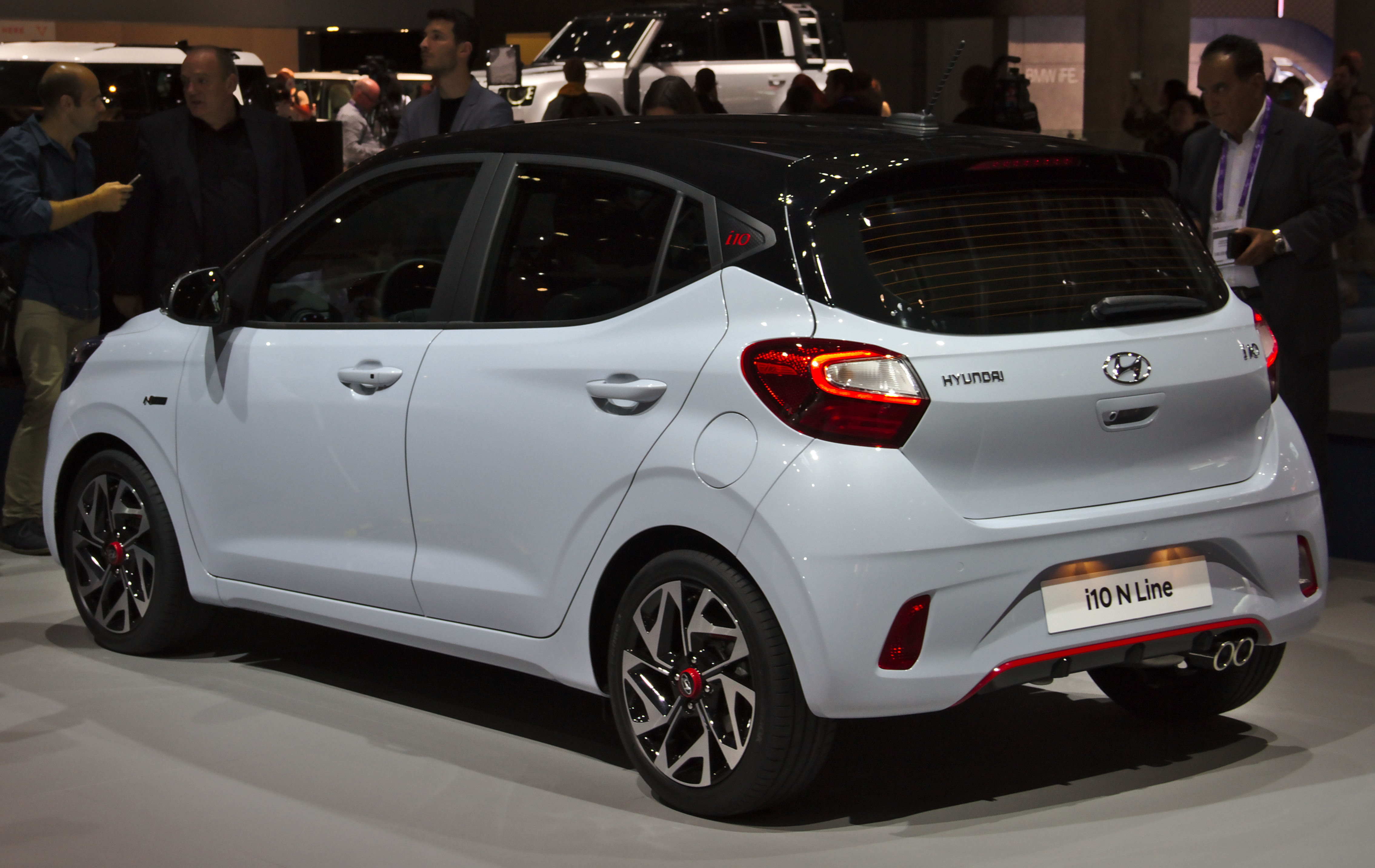 Hyundai_i10_(LA) at IAA 2019